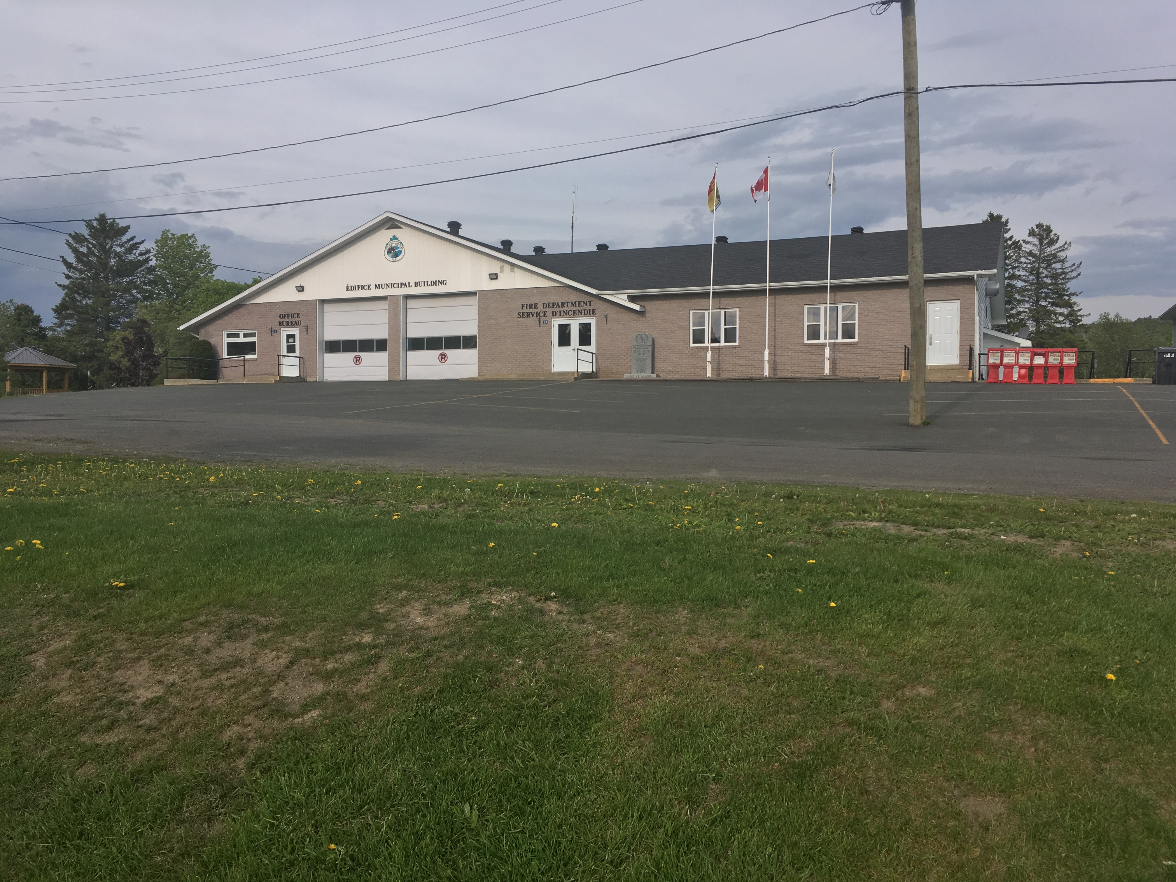 Village Hall in Tide Head